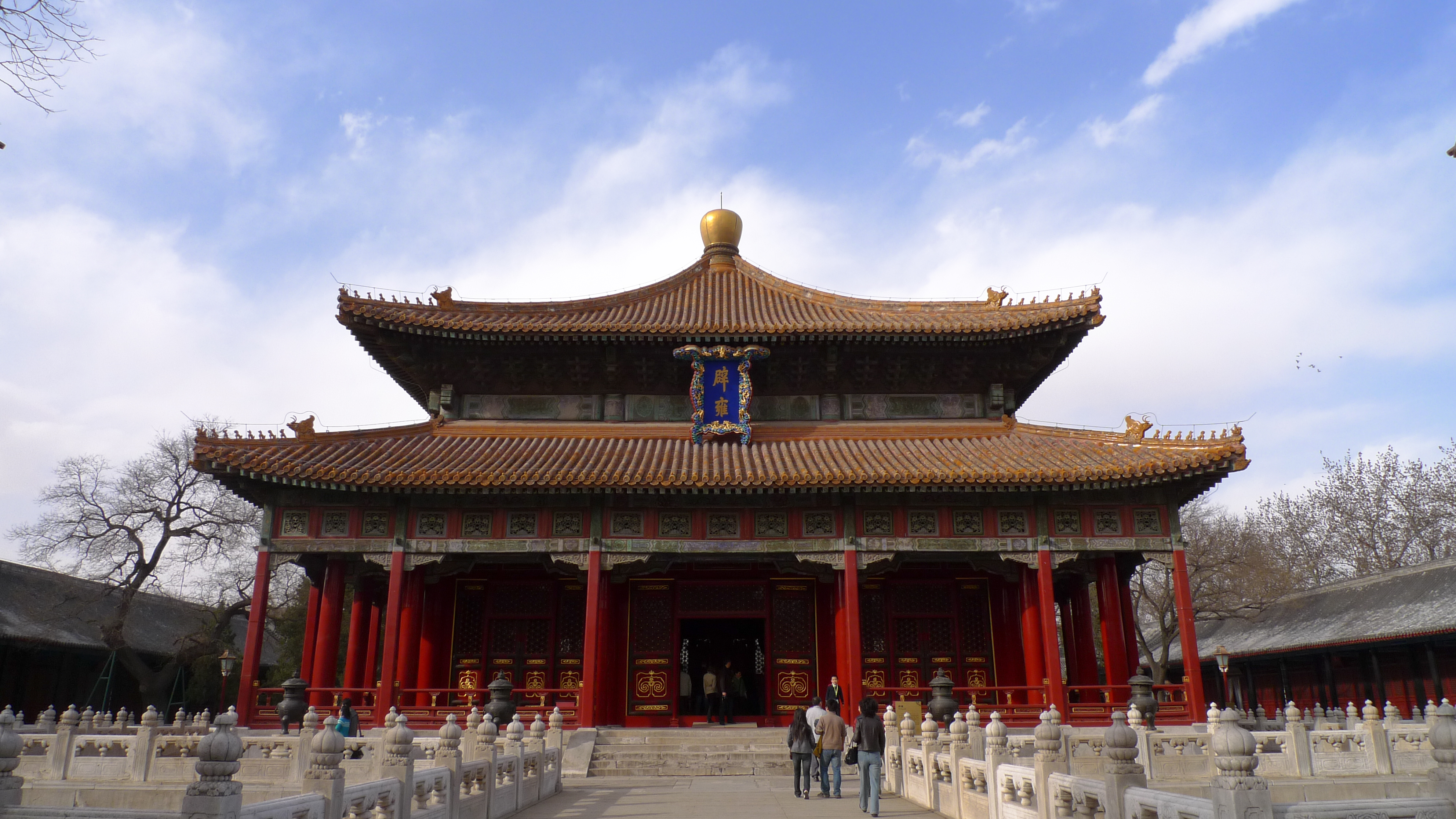 The Piyong Palace of the the Guozijian in Beijing